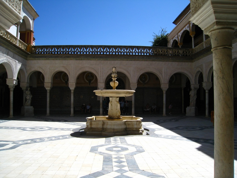 Courtyard in Casa de Pilatos, Seville, Spain